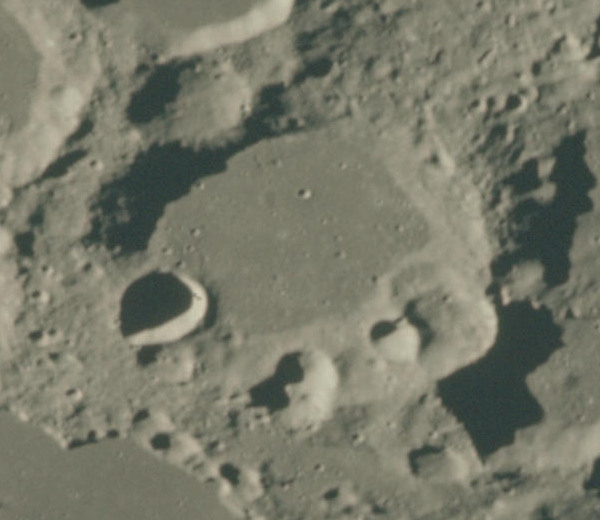 Oblique view of Jeans, Mare Australe, on the far side of the moon. North at top.